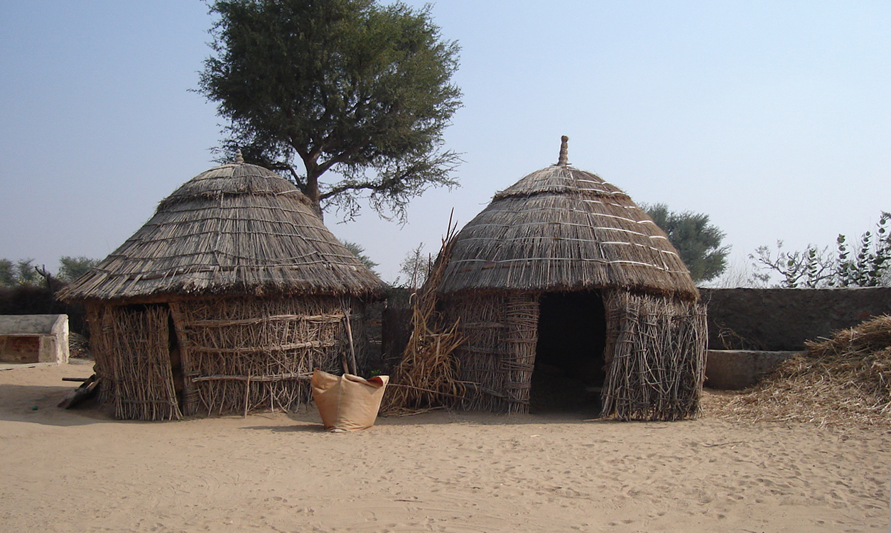 A house in the Thar desert.